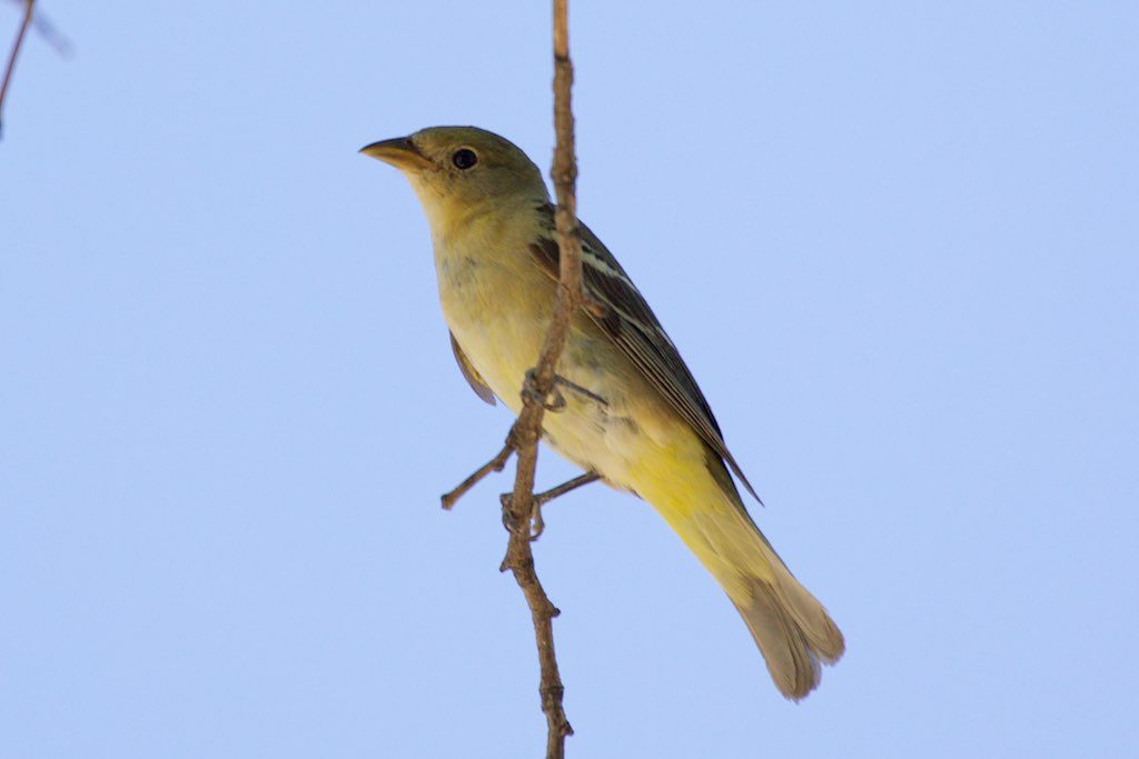 Western Tanager (female) | Paradise Loop | AZ | 2015-07-27at12-01-192